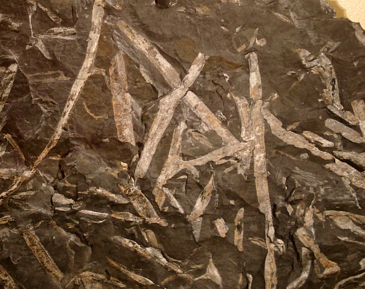 Cropped image of taxon in file name